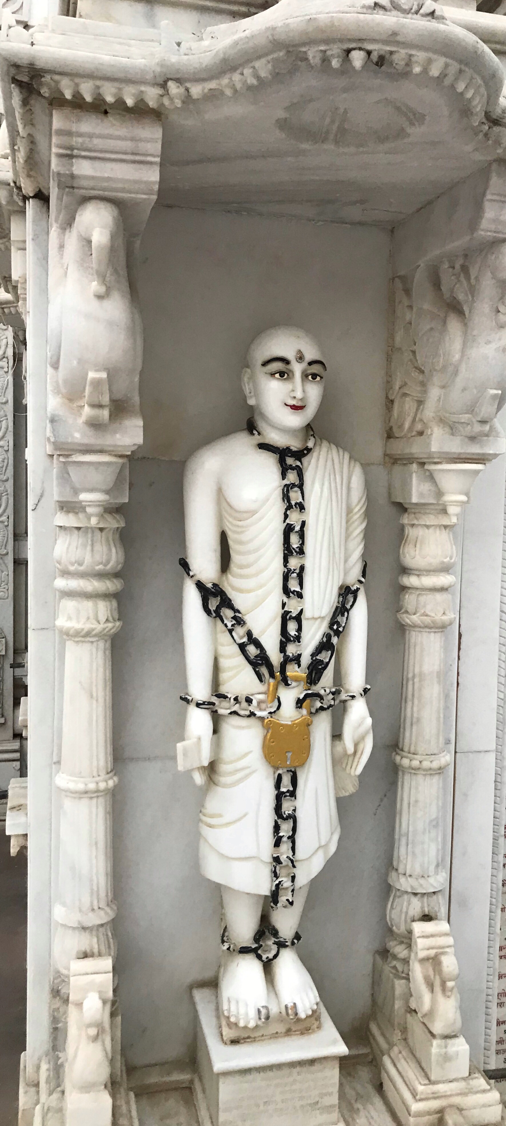 Acharya Manatunga was put under arrest in forty-eight chambers under locks and chains by King Bhoja in city of Ujjain. In the prison Acharya Mantunga entered the realms of the Lord Rishabhanatha and started the prayer. He wrote in Sanskrit language a great poem the Bhaktamara Stotra having 48 Stanza (Verse). The chants and prayers of Manatunga were thus in full brim, flowing with the unbound energy of chain-reaction. Due to the effect of Bhaktamara Stotra, Acharya Mantunga no more remained imprisoned as the locks opened automatically.